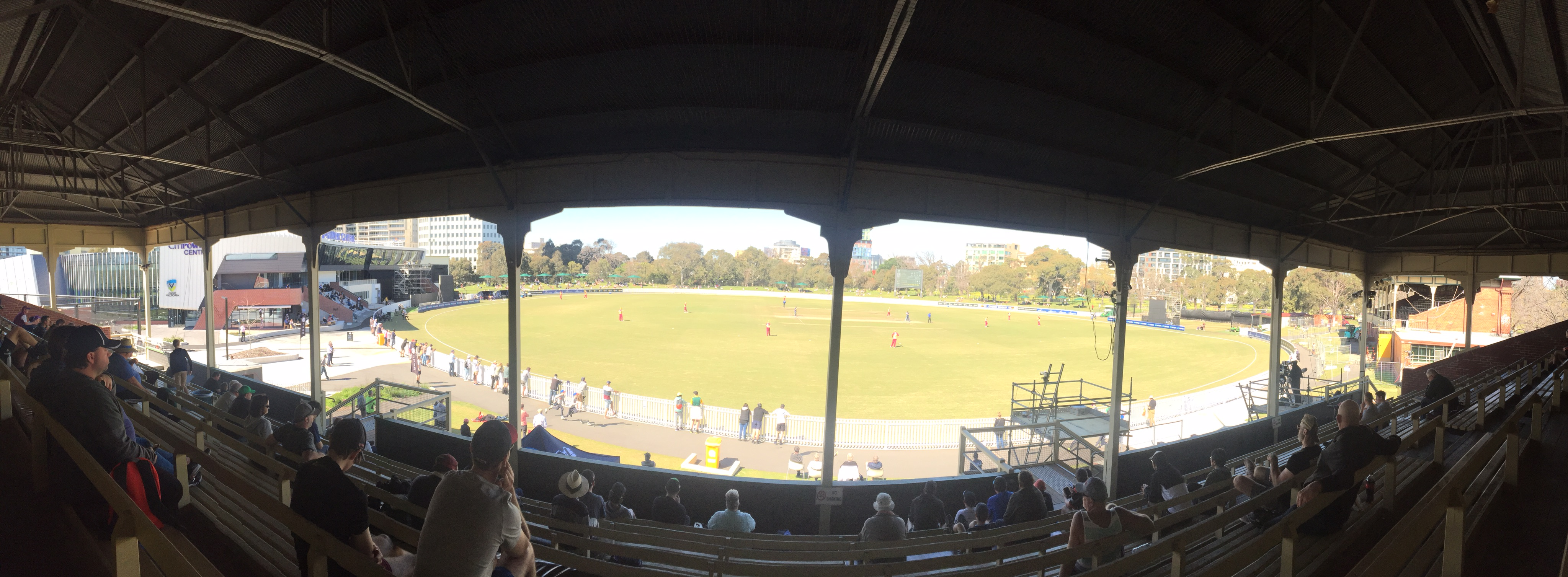 Panoramic view of the Junction Oval in October 2019